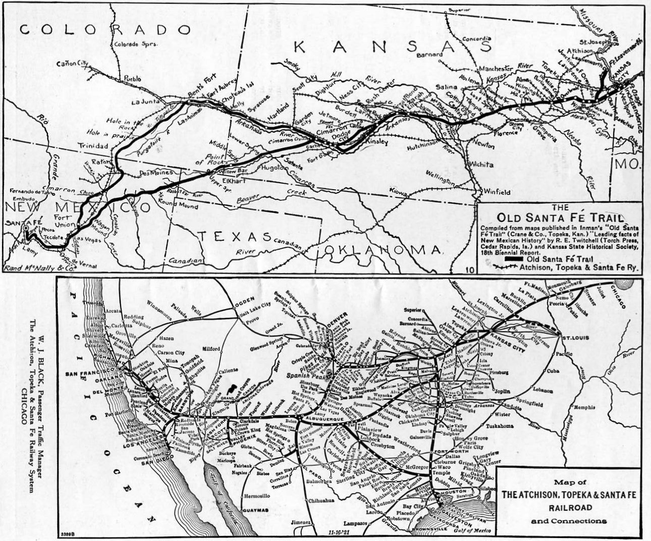 Comparison map showing the Santa Fe Trail and the Atchison. Scanned from: Santa Fe Railroad (1922), By the Way - A condensed guide of points of interest along the Santa Fe lines to California, Rand McNally and Company, Chicago, Illinois.